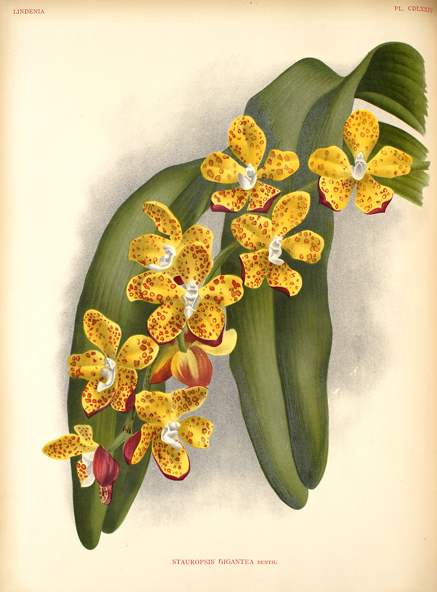 The Giant Vandopsis